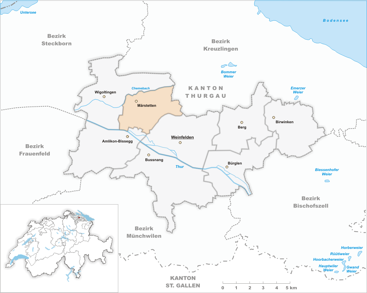 Municipality Märstetten